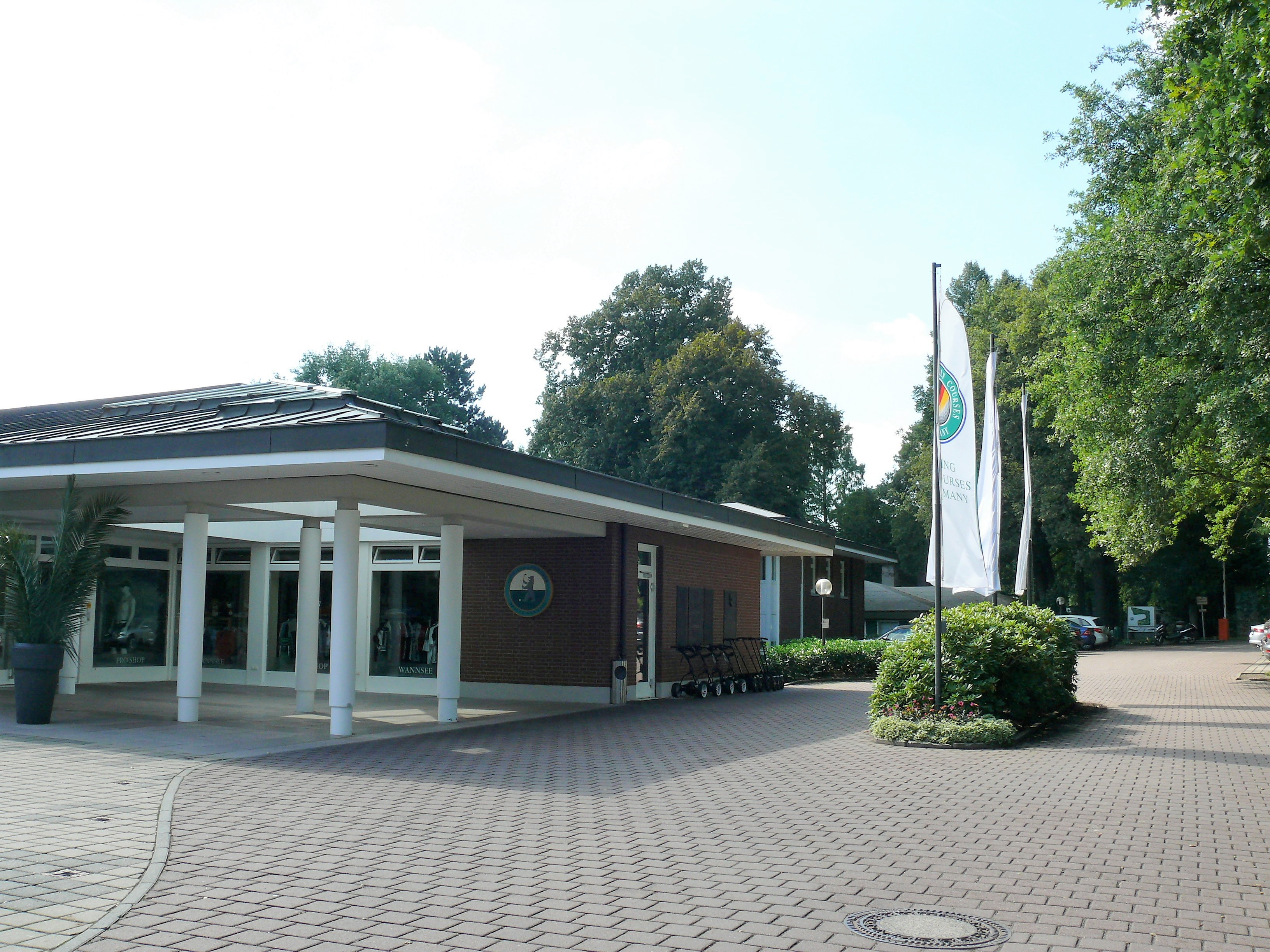 Berlin-Wannsee Golf- und Landclub Berlin-Wannsee